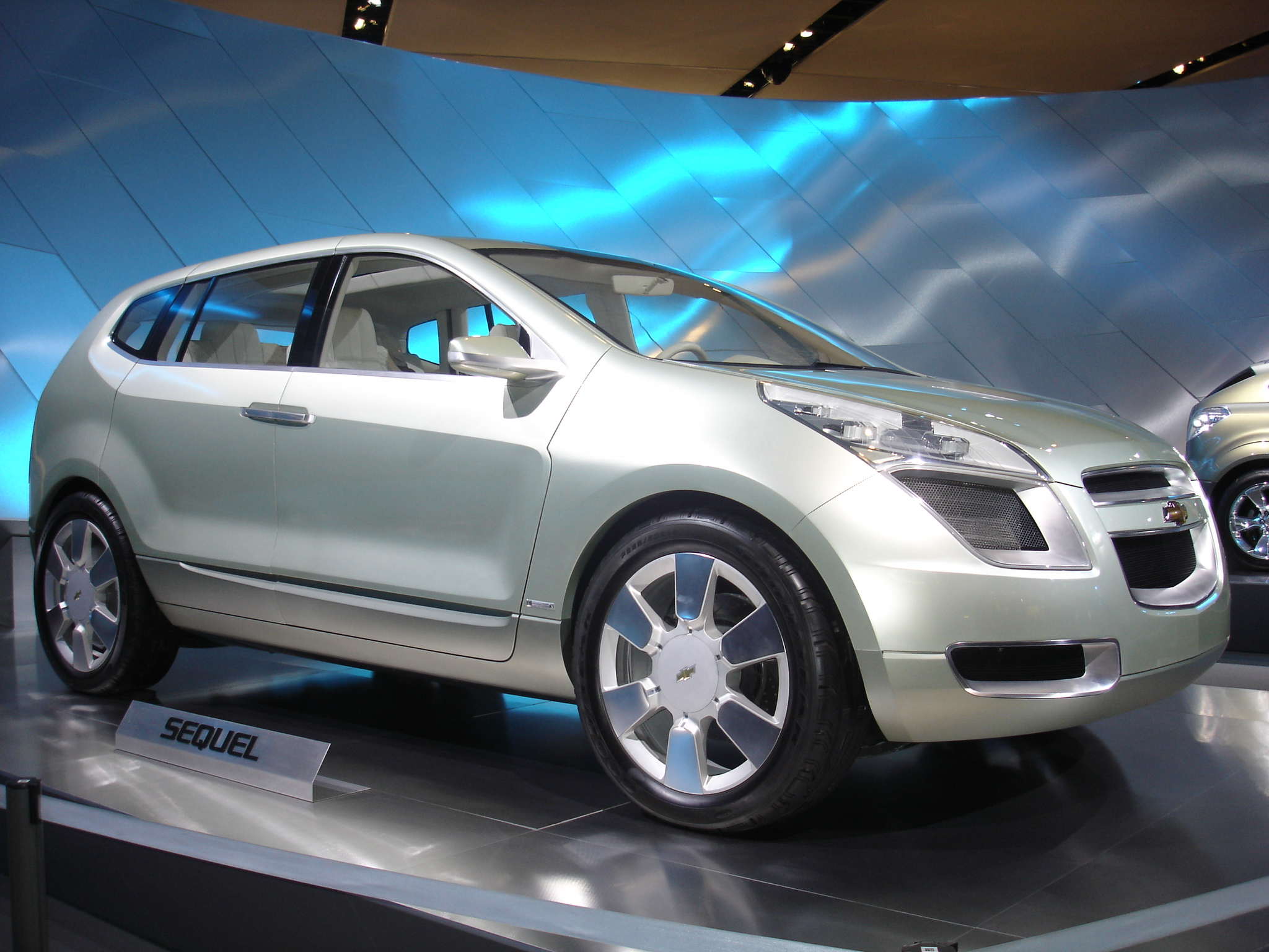 Chevrolet Sequal Concept